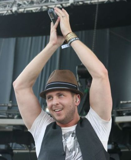 Frontman of OneRepublic Ryan Tedder